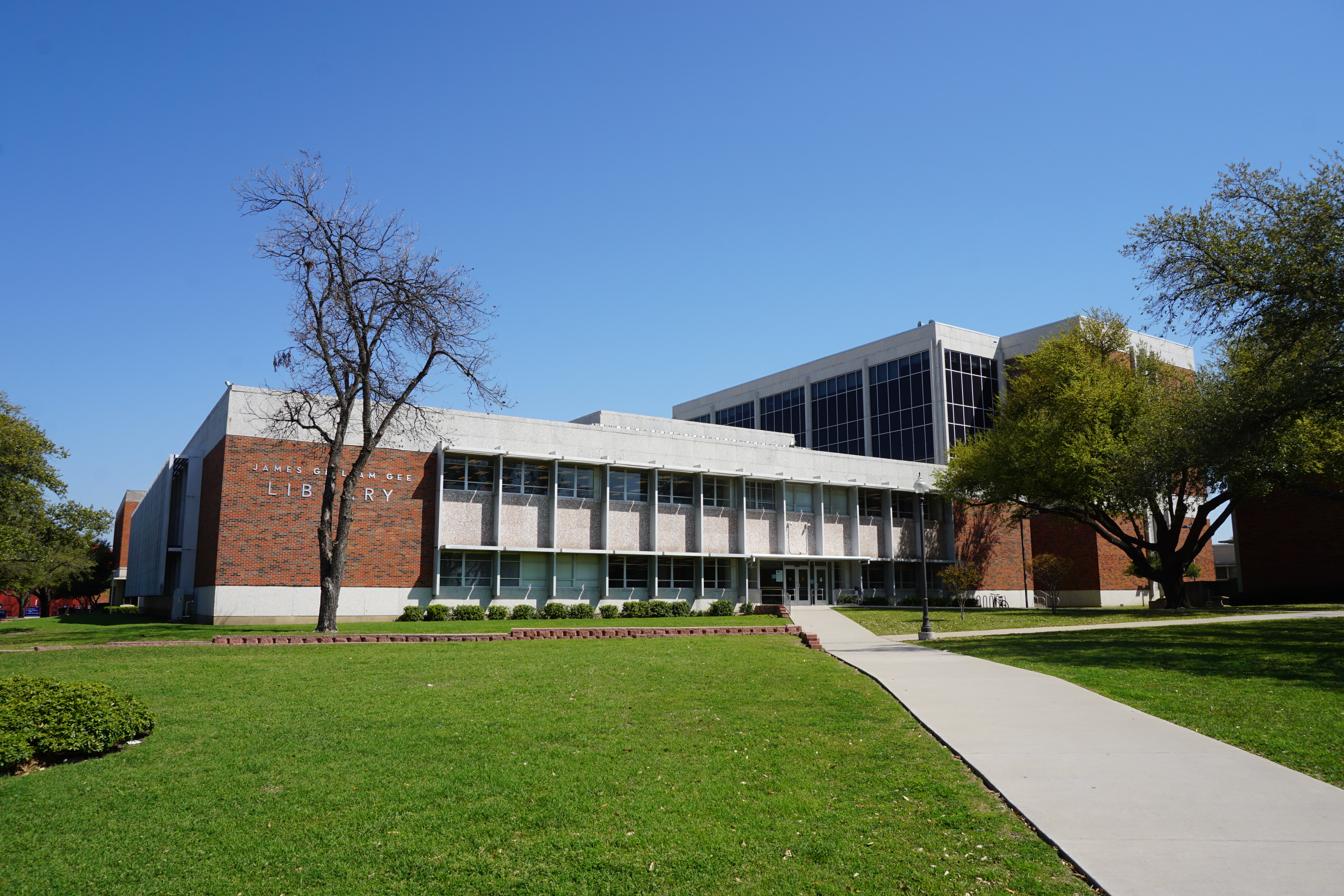 The James G. Gee Library on the campus of Texas A&M University–Commerce in Commerce, Texas (United States).